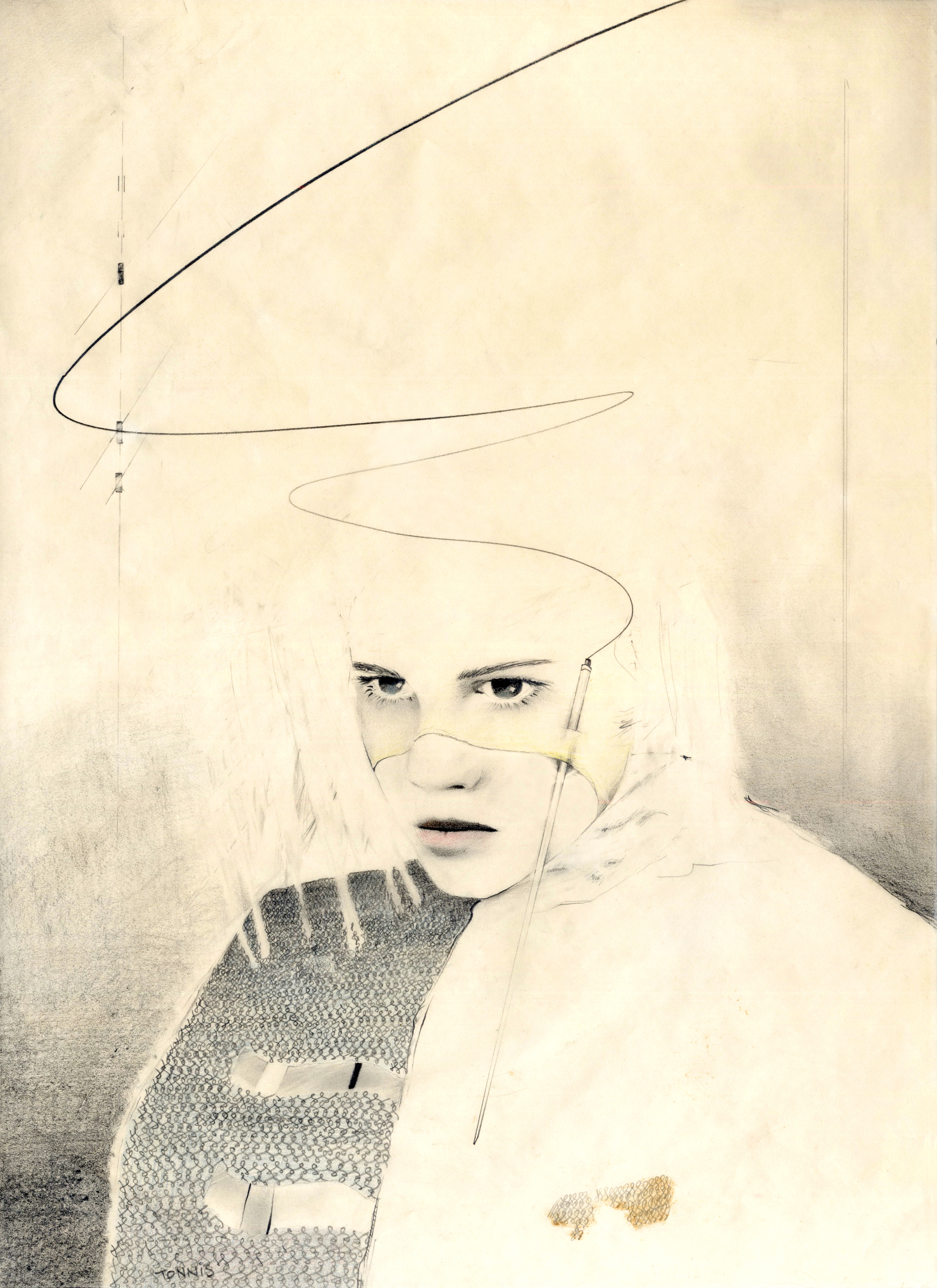 Christiaan Tonnis ~ Female Warrior #6 "Behind the Line" / 11.7 x 16.5 inches / Pencil and crayon on paper / 1982